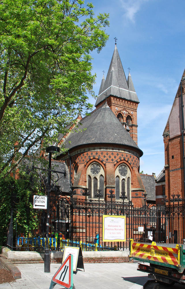 Church of St James the Less, Vauxhall Bridge Road, Pimlico, London SW1, England